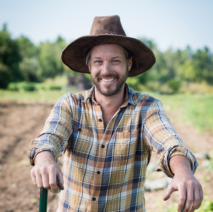 Farmer, author and educator Jean-Martin Fortier.